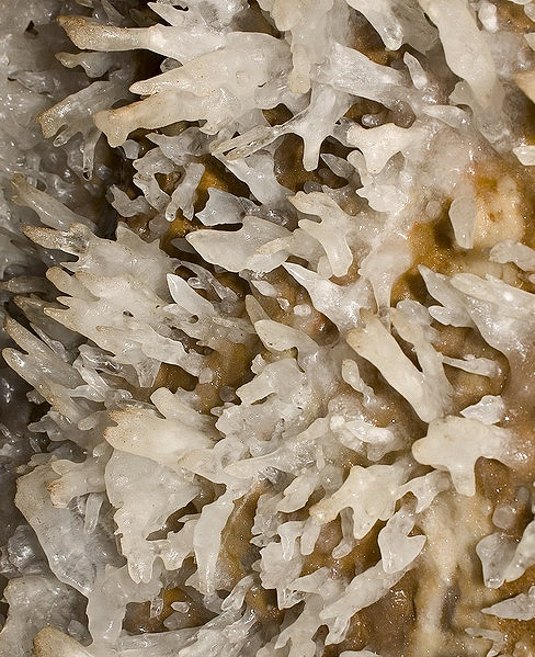 Speleothem in No. 2. Cavity of Upper Tunnel in Esztramos.